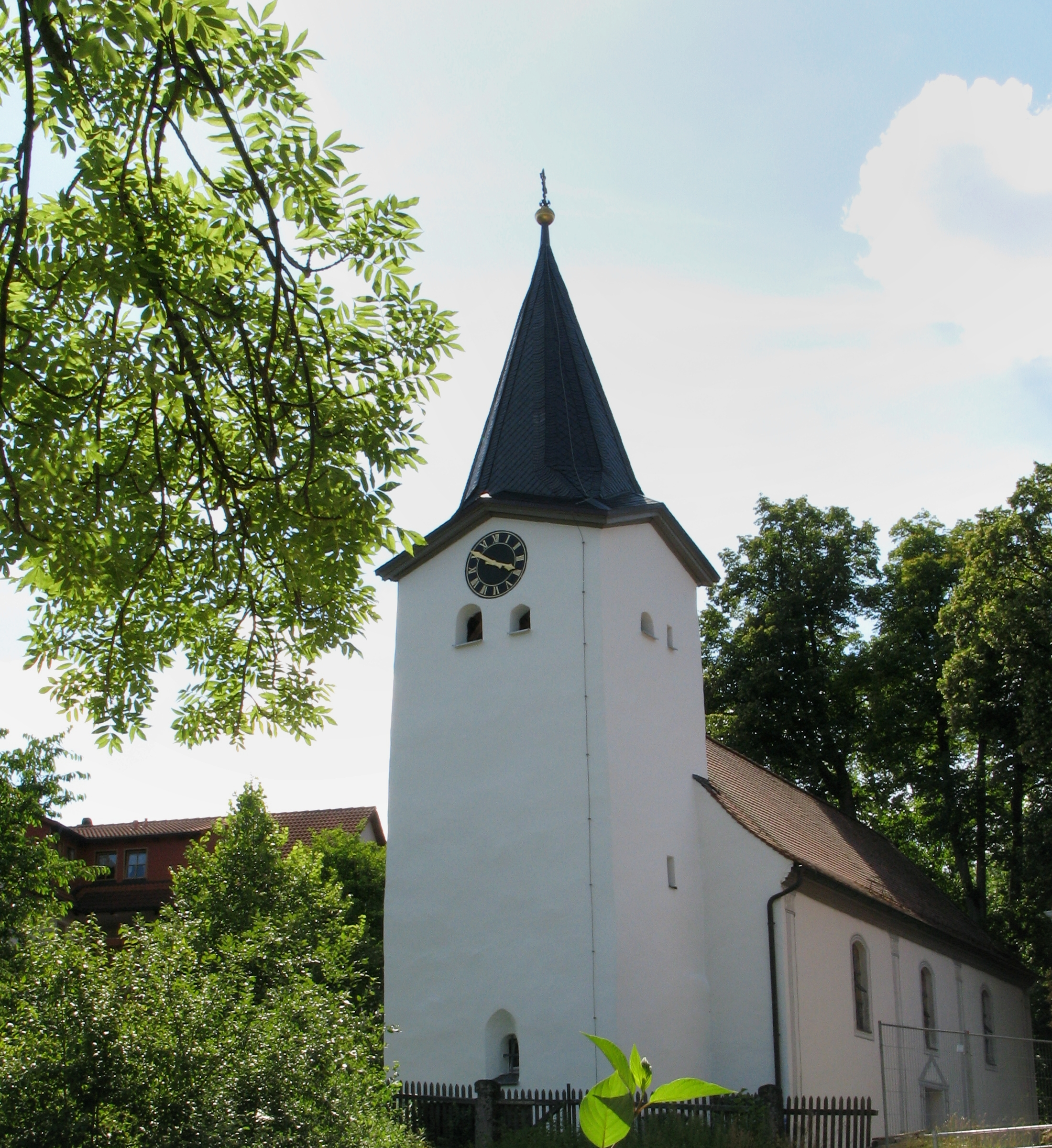 Village church of Kühlenfels